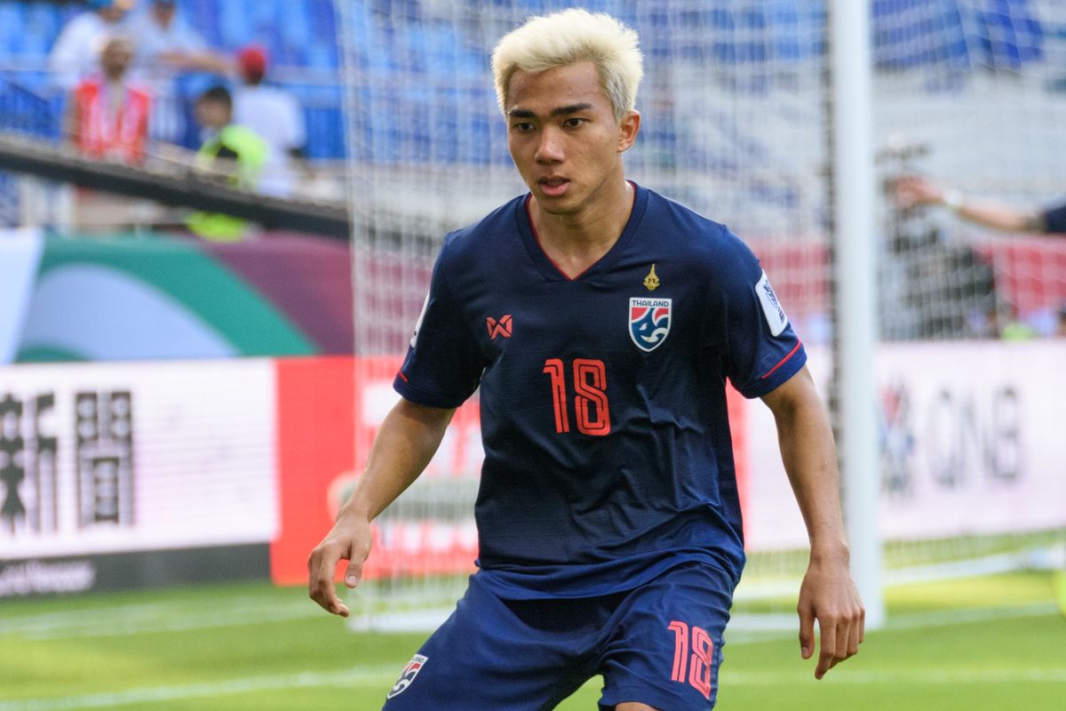 Chanathip Songkrasin at the Asian Cup 2019